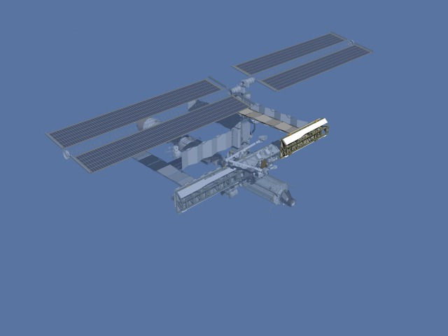 Space Shuttle Endeavour delivered the P1 truss, the first port truss segment, which the STS-113 crew installed